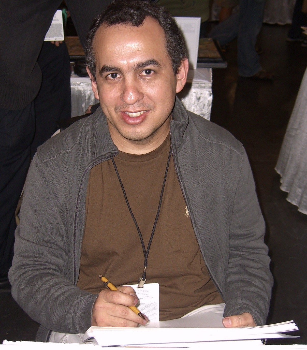 Comic book creator Eddy Barrows, at the New York Comic Convention in Manhattan, October 9, 2010. Photo by Luigi Novi. This photo may be used, modified and published for any purpose, only if a easily visible credit to the photographer is placed near the photo in each instance in which it is used. (See licensing information below.) Publication of this photo without this proper attribution constitute copyright infringement. For more information on my photos, you can contact me here.